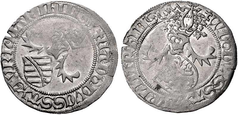 GERMANY, Sachsen. Ernst, with Albrecht and Wilhelm III. 1464-1486. AR Horngroschen (9mm, 2.84 g, 6h). Freiburg mint. Dated (14)65. Coat-of-arms surmounted by crested helmet left / Coat-of-arms surmounted by crested helmet left. Levinson I-96b. Good VF, toned.